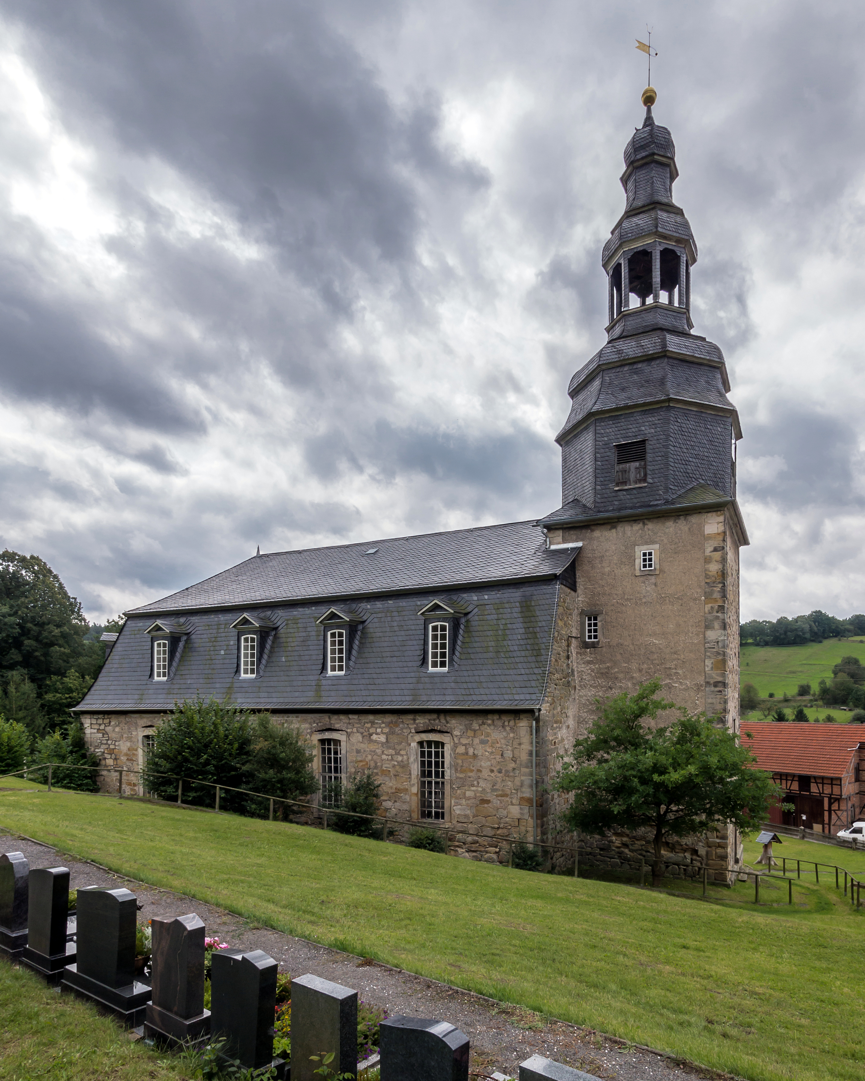 Milbitz b. Rottenbach Kirche